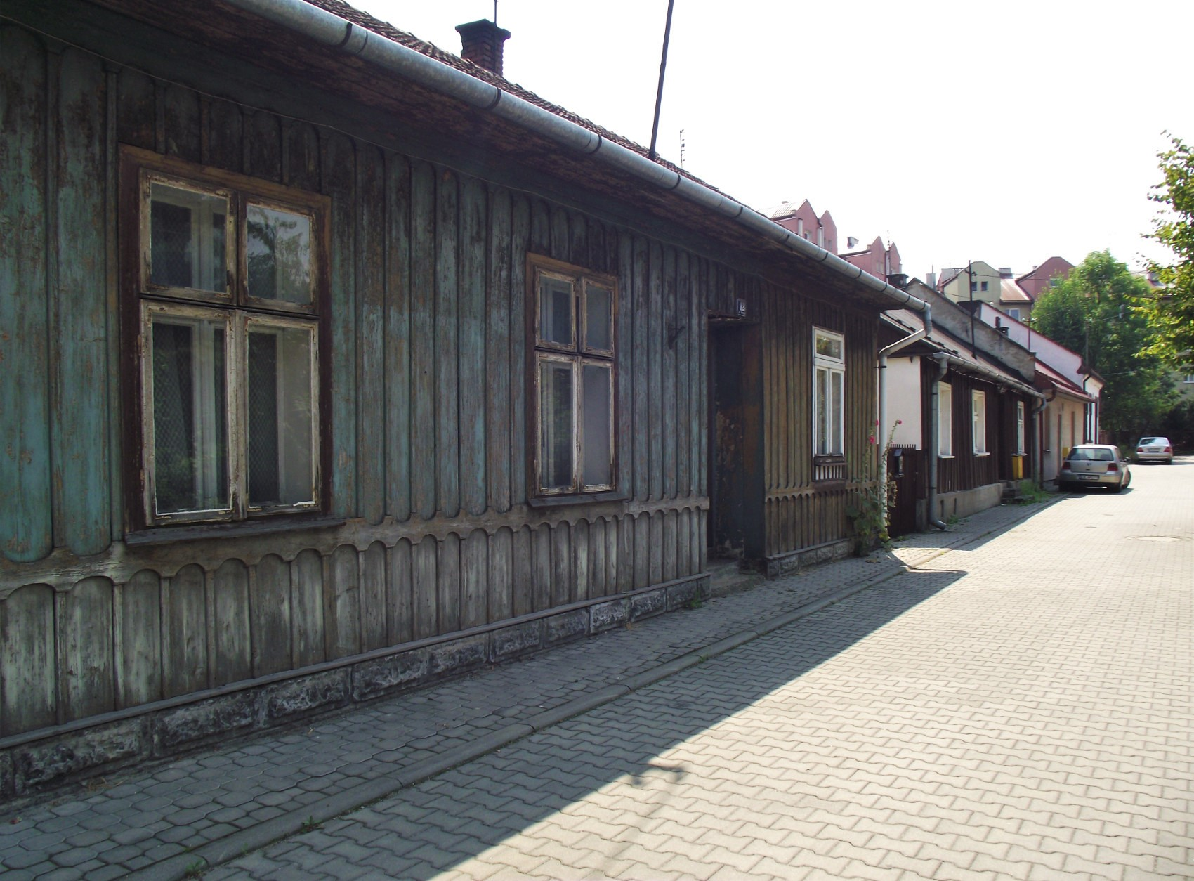 Nowy Sącz, Poland, Zacisze Street. Old buildings in the district of Zakamienica/Pieklo.